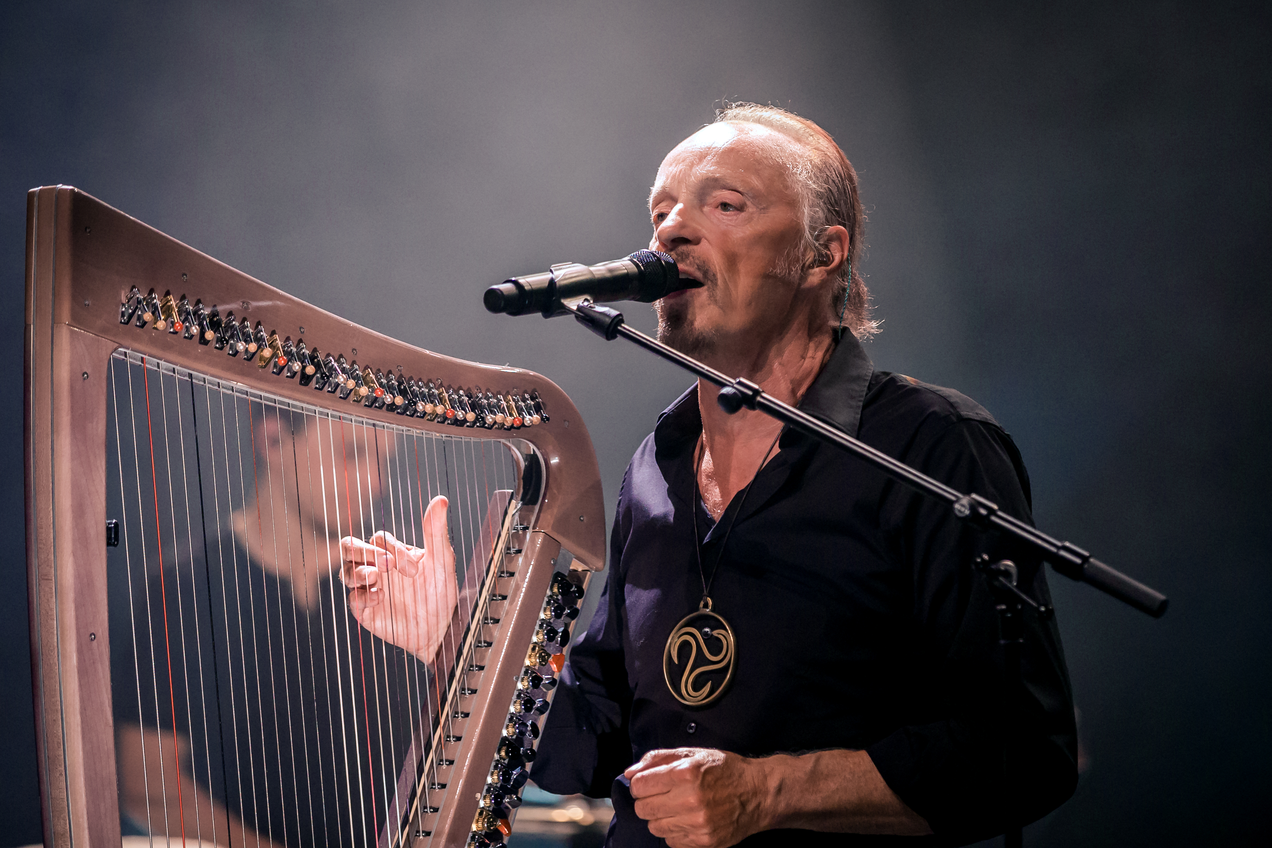 Breton harpist Alan Stivell in live during Cornouaille Festival (Quimper, Brittany) July 22, 2016.